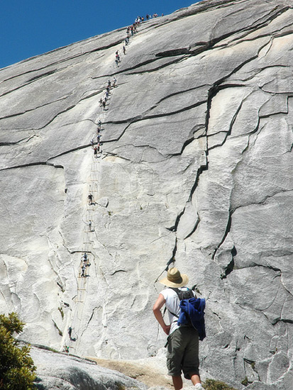 Cables on Half Dome as seen from below, Yosemite National Park, United States